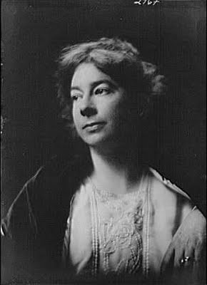 Filsinger, Sara Teasdale, portrait photograph. Date: July 11, 1919.